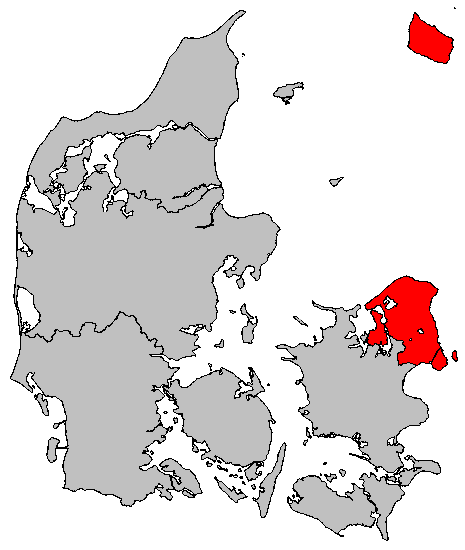 Location map of Region Hovedstaden in Denmark. Created by User:Valentinian based on Image:Map DK Odense.PNG created by User:Michiel1972 who released the latter image under PD.